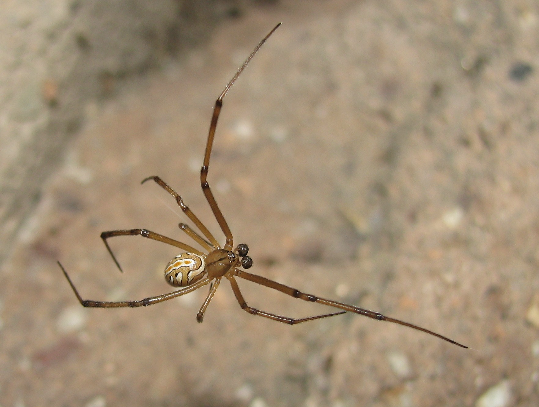 Latrodectus hesperus male dorsal side for more details about this image. for an image of a darker colored male.